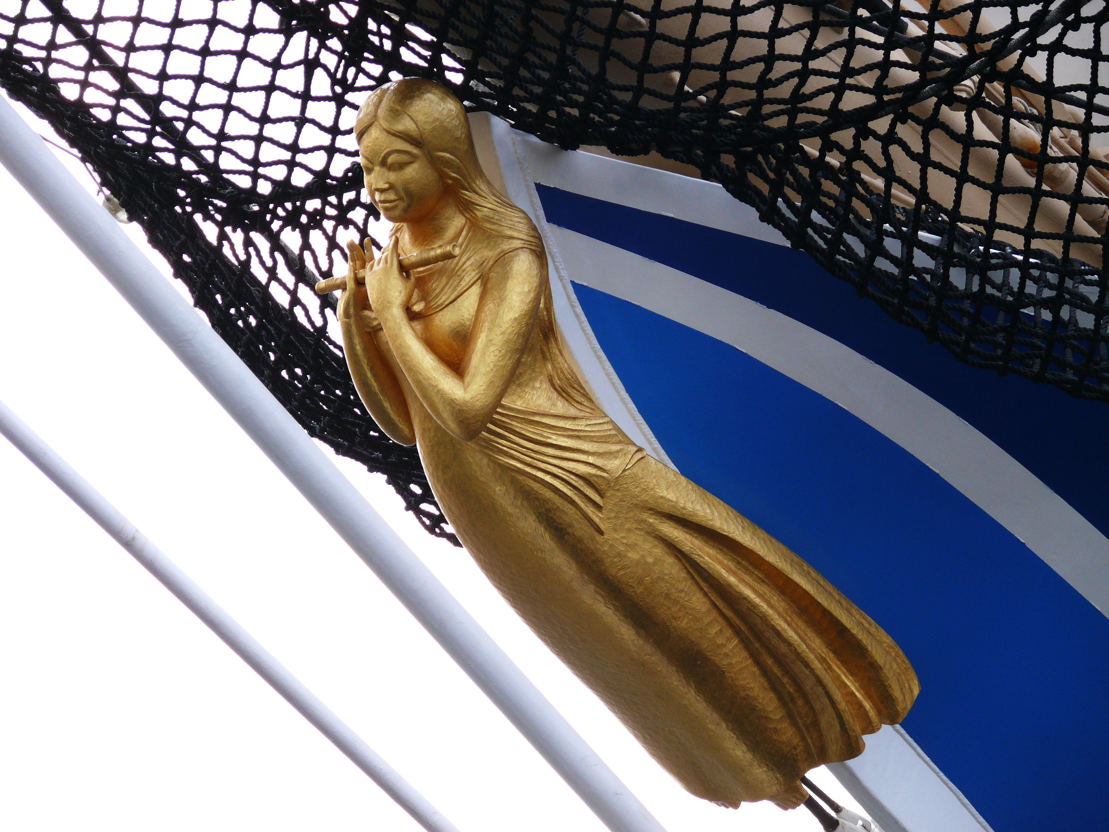 Kaiwo Maru, a four masted barque IMO number: 8801010 Built in Sumitomo S.B. Length overall: 110.09 m Beam: 13.8 m GRT: 2,556 Minato, Nagoya, Aichi